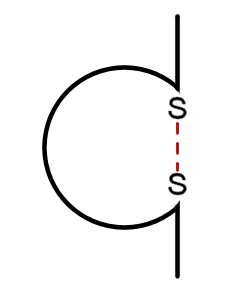 Scheme of the structure of an Ig domain.